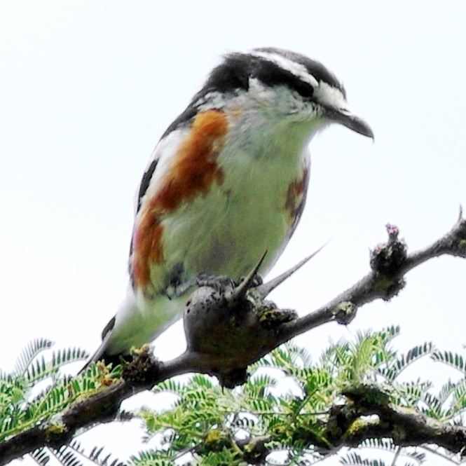 Adult male Brubru, Nilaus afer massaicus, on an acacia, Sweetwaters Tented Camp, Kenya. The time stamp is 10 hours too early. Same bird as Image:Nilaus afer1.jpg